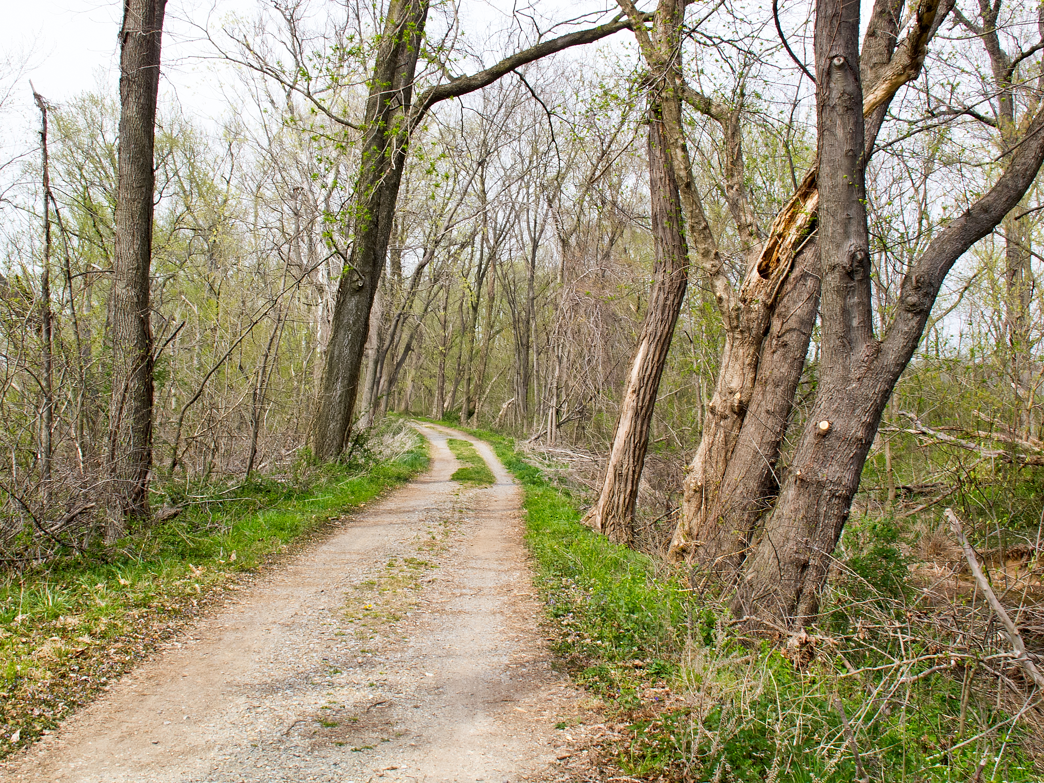 The Chesapeake and Ohio Canal, the 9 mile level between Edwards Ferry and Lock 26 (Wood's lock), somewhere between miles 33 and 34 on the towpath.